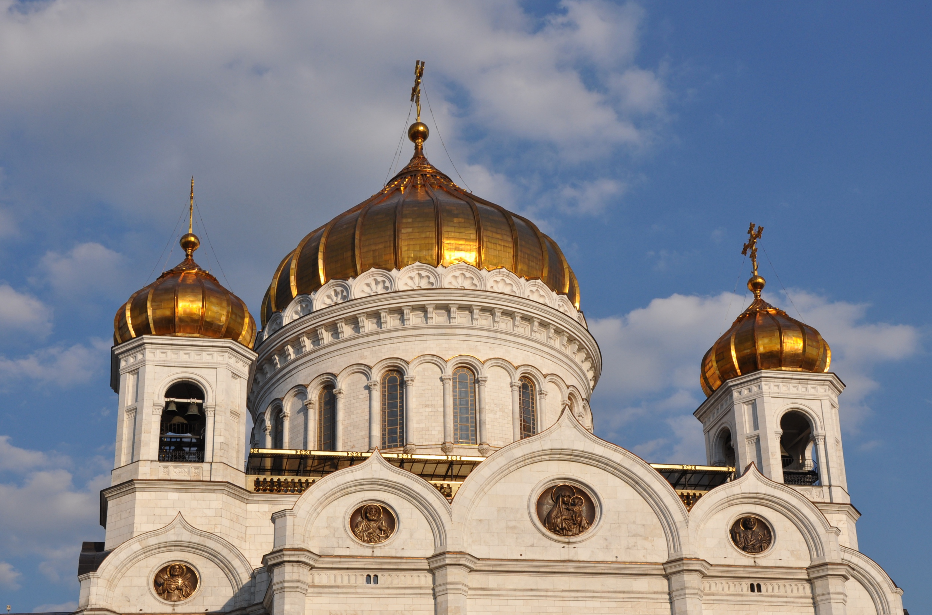 Cathedral of Christ the Saviour after reconstruction in 2011